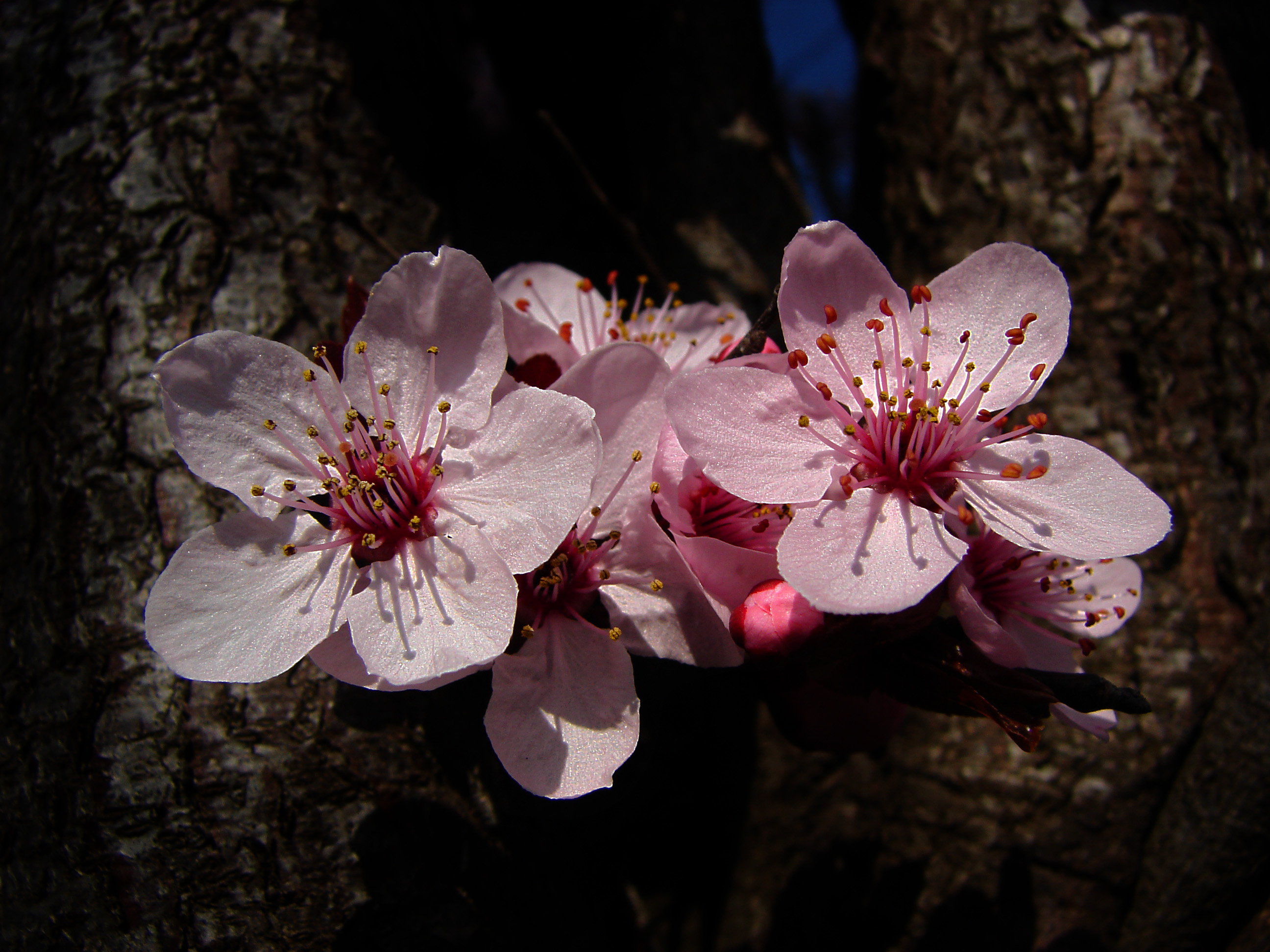 Flowers of some tree from Rosaceae family.